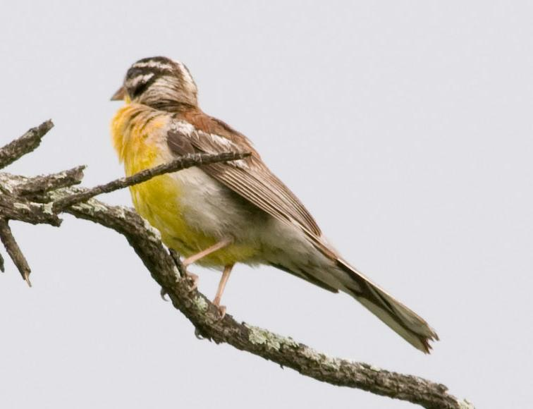 Golden-breasted Bunting (Emberiza flaviventris) Dysmorodrepanis 19:20, 28 May 2008 (UTC)